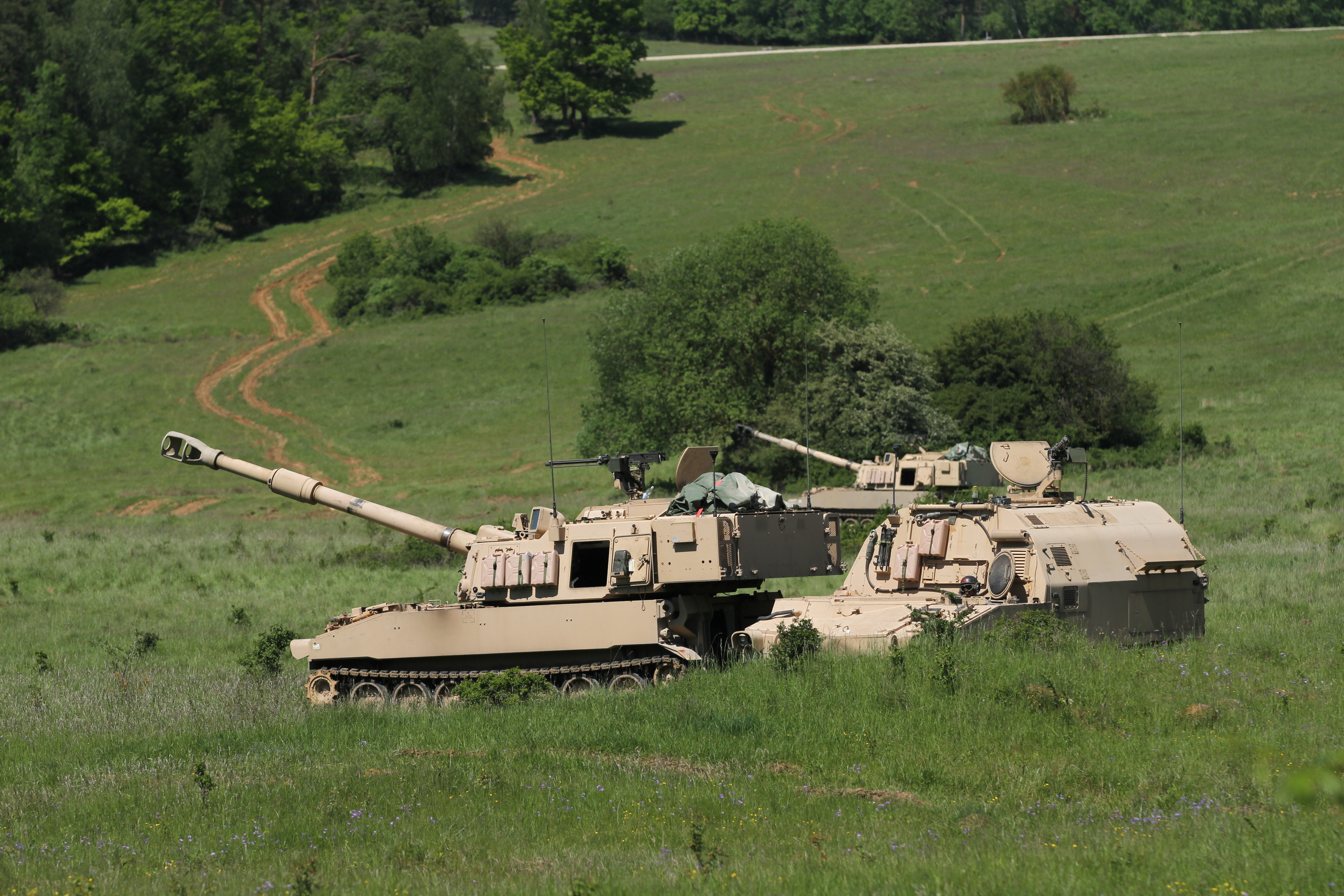 Soldiers from Battery A, 1st Battalion, 82nd Field Artillery Regiment, 1st Brigade Combat Team, 1st Cavalry Division conduct training maneuvers with their Paladins and Field Artillery Ammunition Supply Vehicles at Hohenfels Training area during Combined Resolve II. Unit: 1st Brigade Combat Team, 1st Cavalry Division